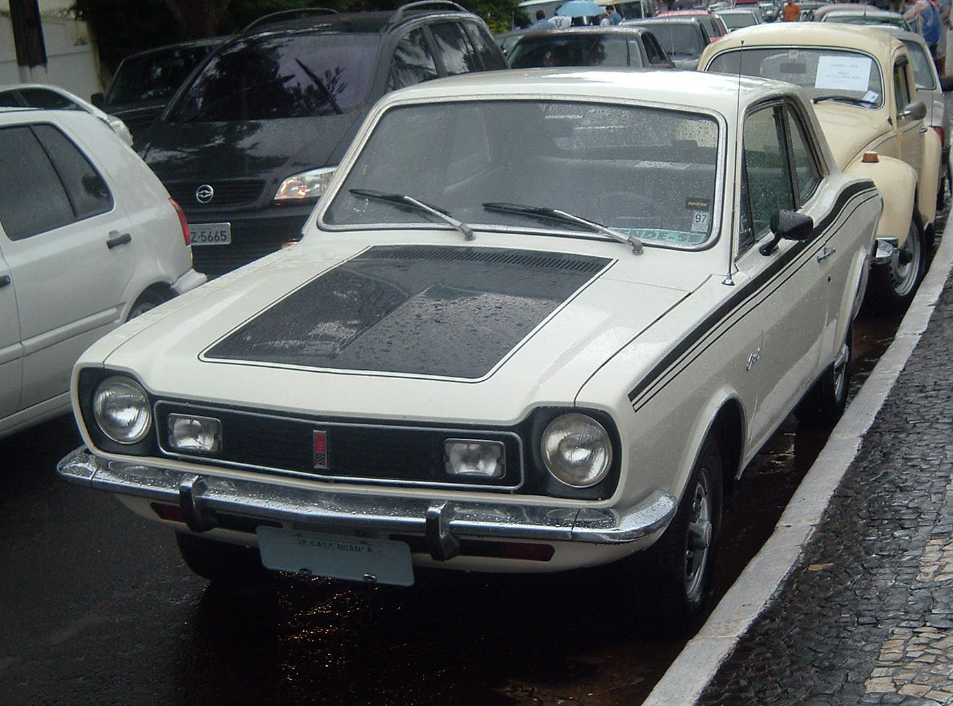 1974 Ford Corcel GT